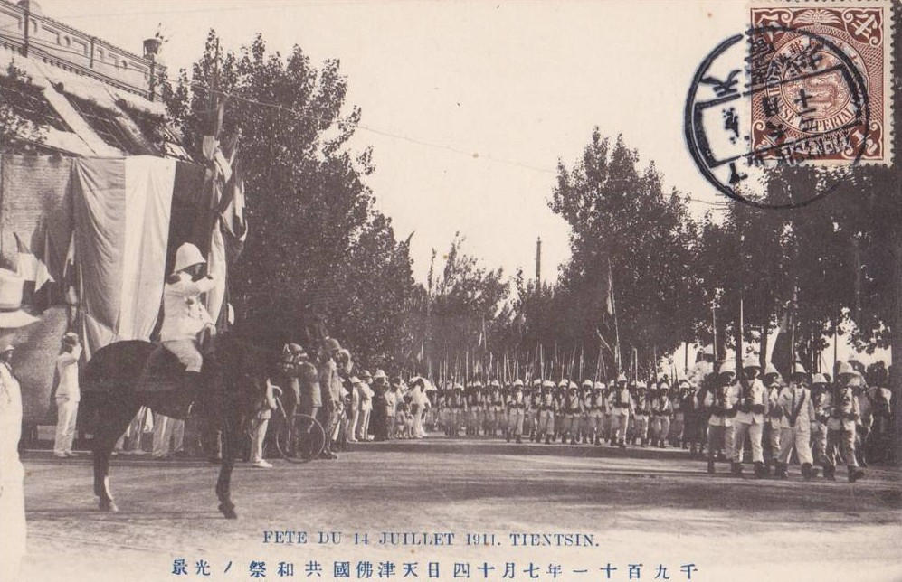 French Concession of Tientsin. Bastille Day Military Parade in 1911.